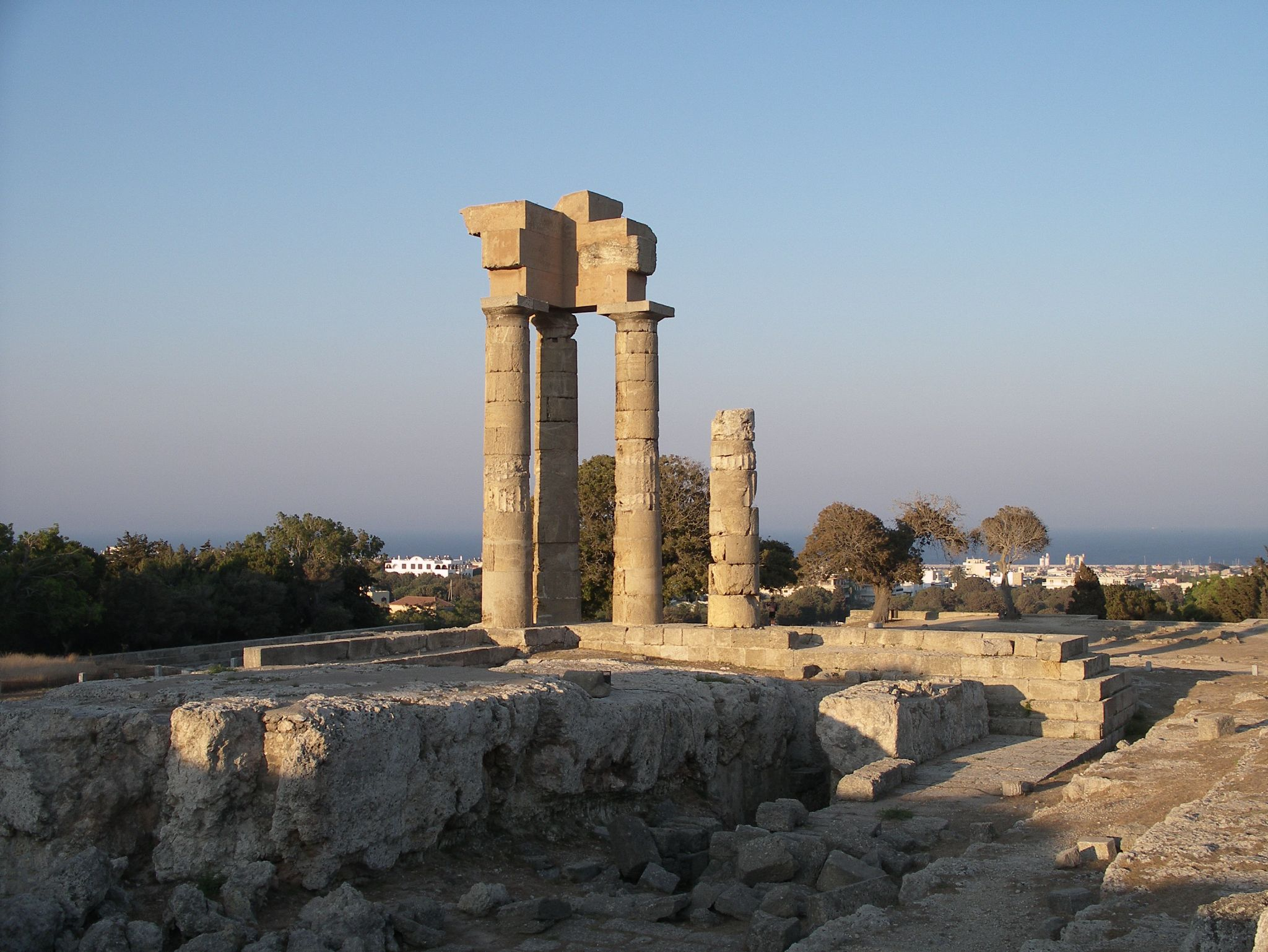 Temple of Apollo Pythios, Acropolis of Rhodes, Greece.